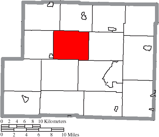 Map of the municipal and township boundaries of Harrison County, Ohio, United States, as of the 2000 census, with the location of Stock Township highlighted. Township borders are shown only in unincorporated areas in order to differentiate incorporated and unincorporated areas more clearly.